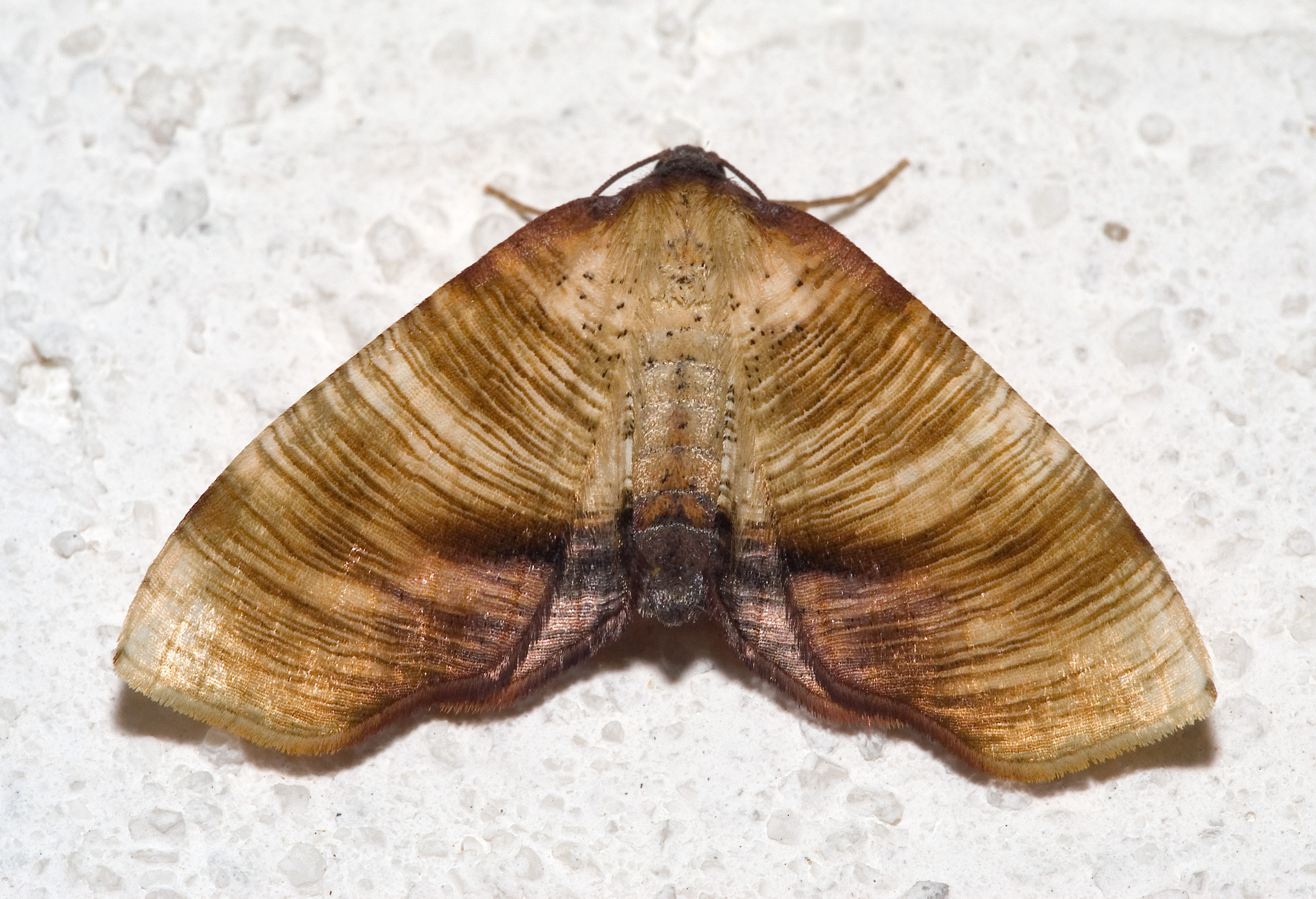 Please report references to kulacgmx.at.